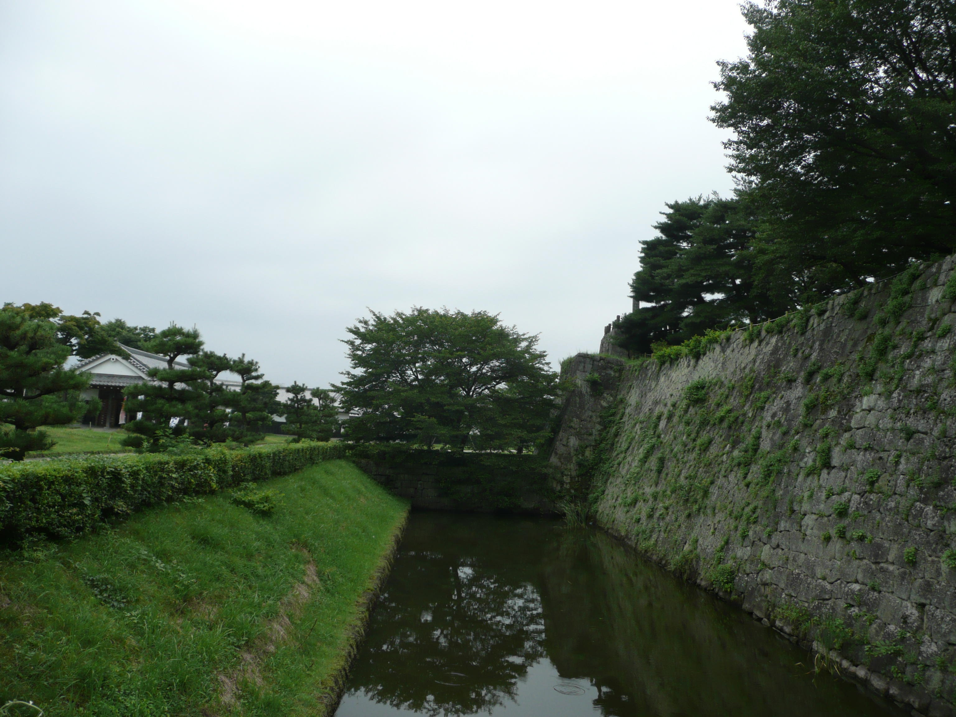 白河小峰城の水堀